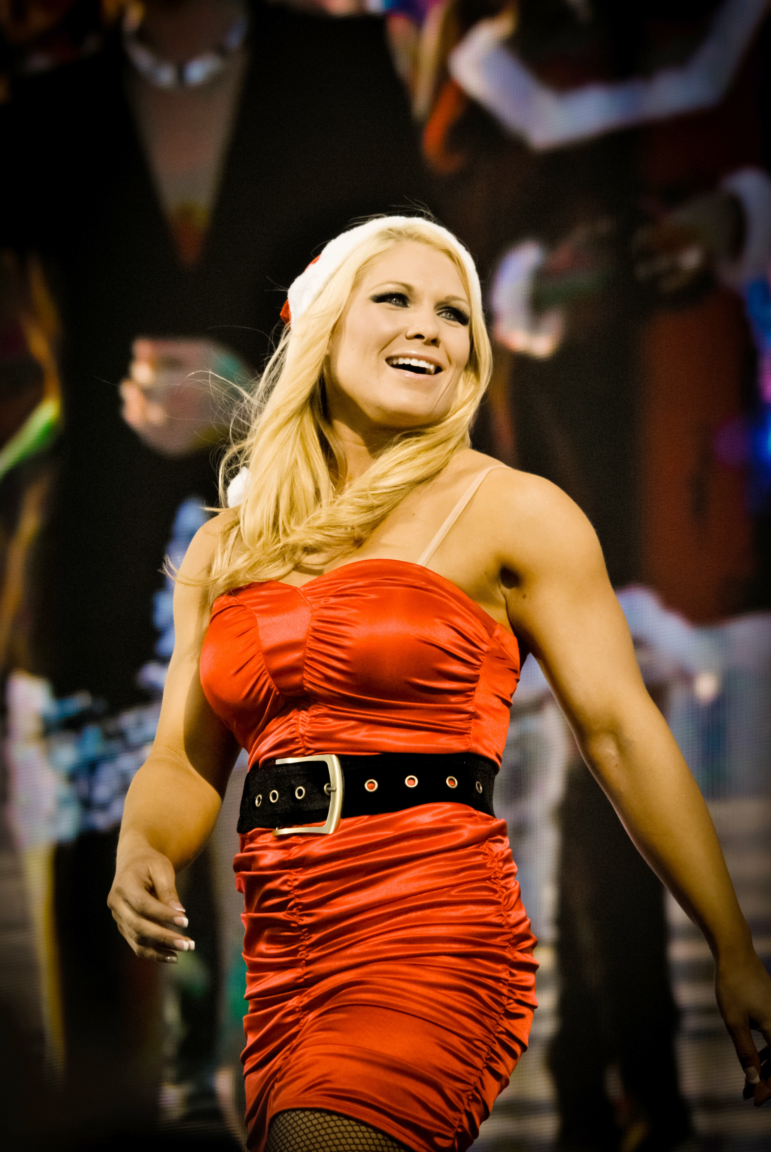 Beth Phoenix at WWE's Tribute to the Troops show in Fort Hood, Texas, in December 2010.